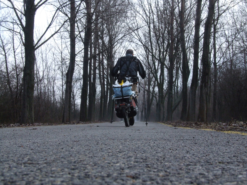 Marino Curnis walking on foot from Italy to Iran. Here on a cycle-road in Hungary.